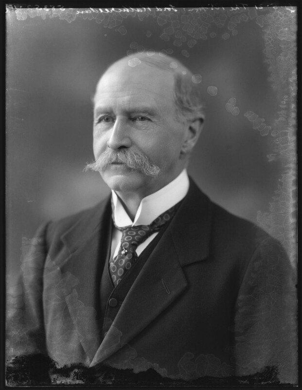 Lord Rathcreedon